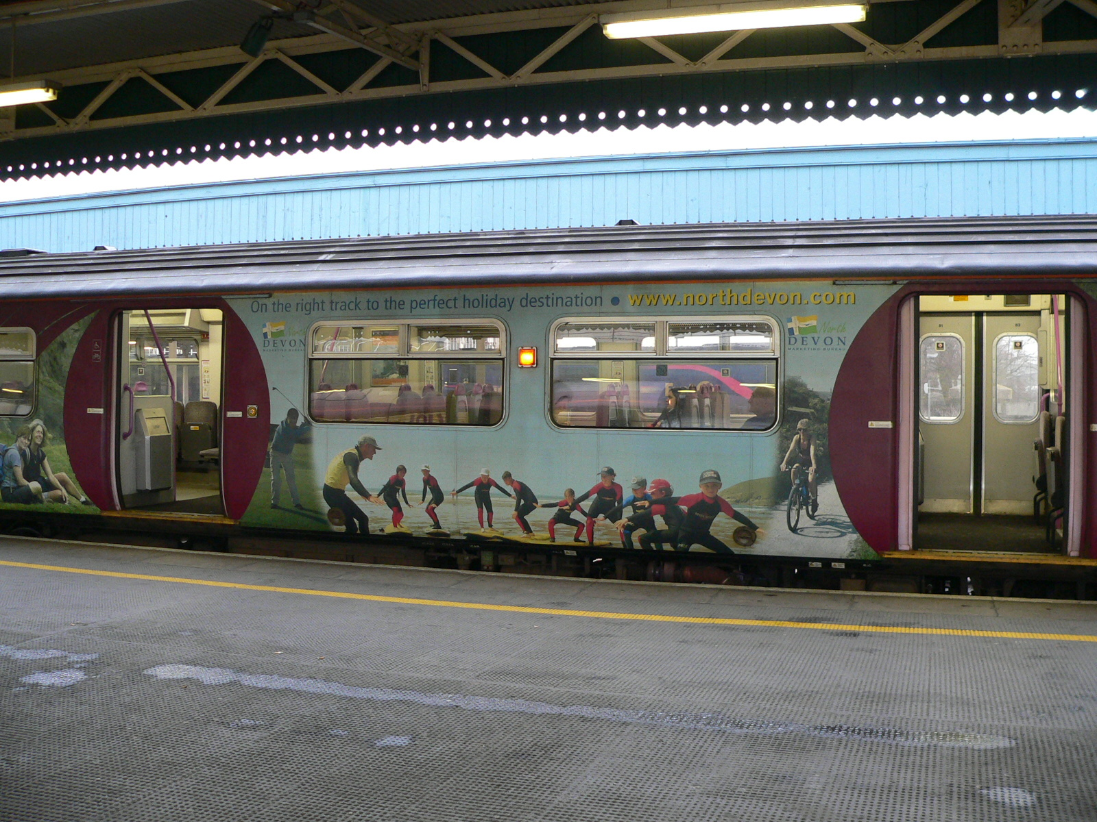 Detail of the livery sponsored by the North Devon Tourist Board on the side of Wessex Trains Class 150 DMU 150241 The Tarka Belle.